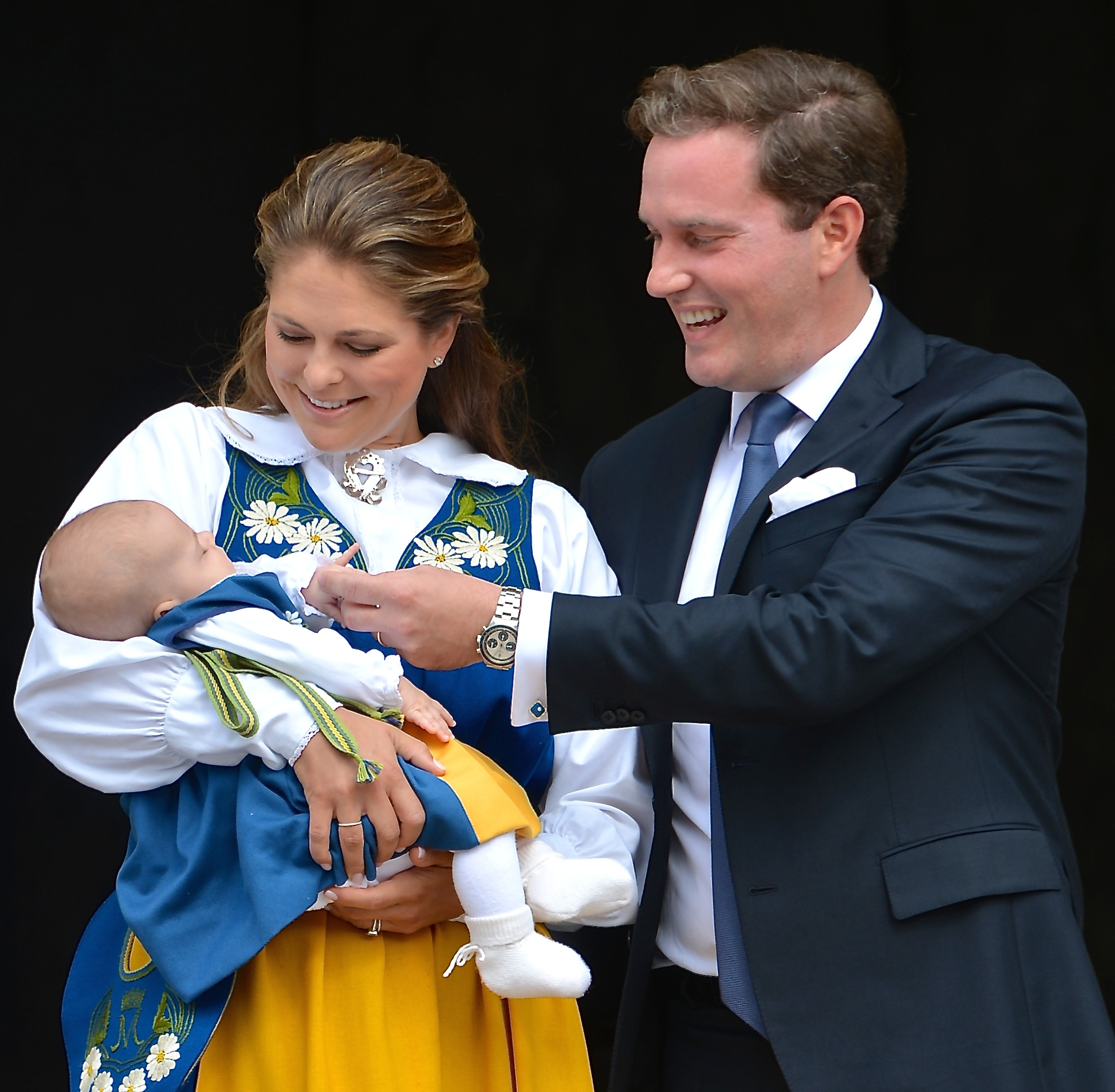 Princess Madeleine of Sweden and Christopher O'Neill on National Day June 6, 2014 in southern arch to the Royal Palace.